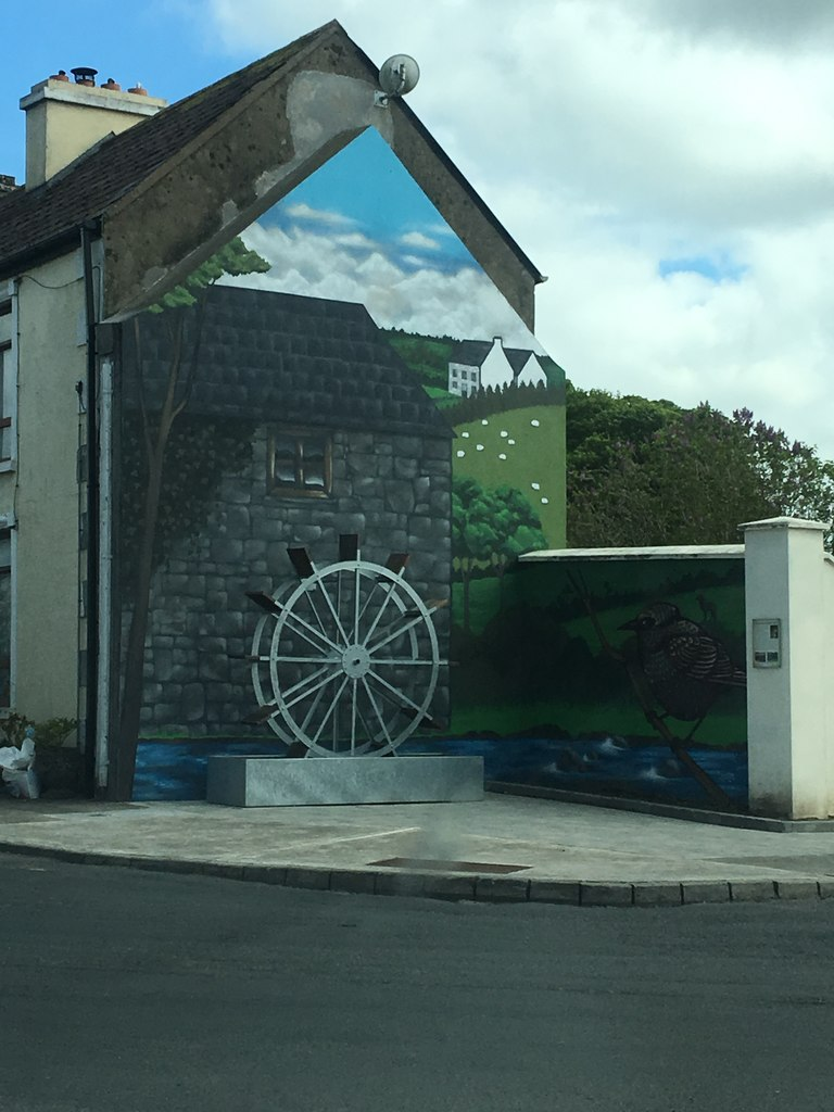 Bunnanaddan wall mural